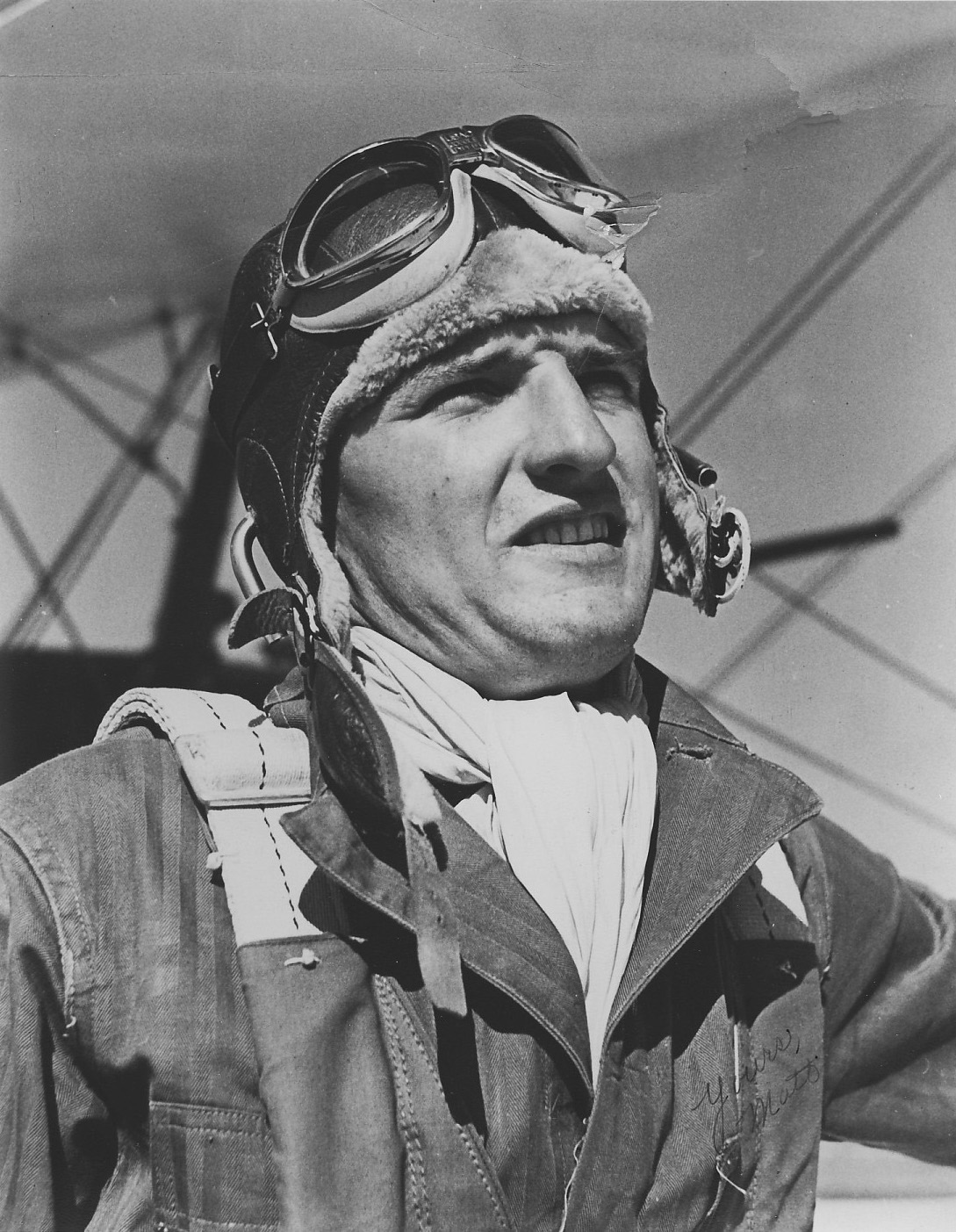 Matt Gordon, Flying Tiger c. 1943 and fiancee of the Black Dahlia. I believe that this picture was taken in China in the early to mid 1940s so should be copyright free under Chinese copyright law. This picture was taken in the United States. The plane shown is a biplane, a training aircraft. The AVG Flying Tigers flew P40 Warhawks, which were monoplanes. Therefore it is probably copyright by whoever took the photograph in the United States. Other information the subject of the picture, Matt Gordon, sent the picture to my mother in c. 1943